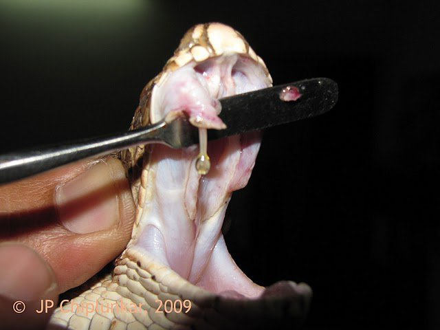 The deadly fangs of the Russel's Viper. These are retractable, and deliver copious amounts of venom